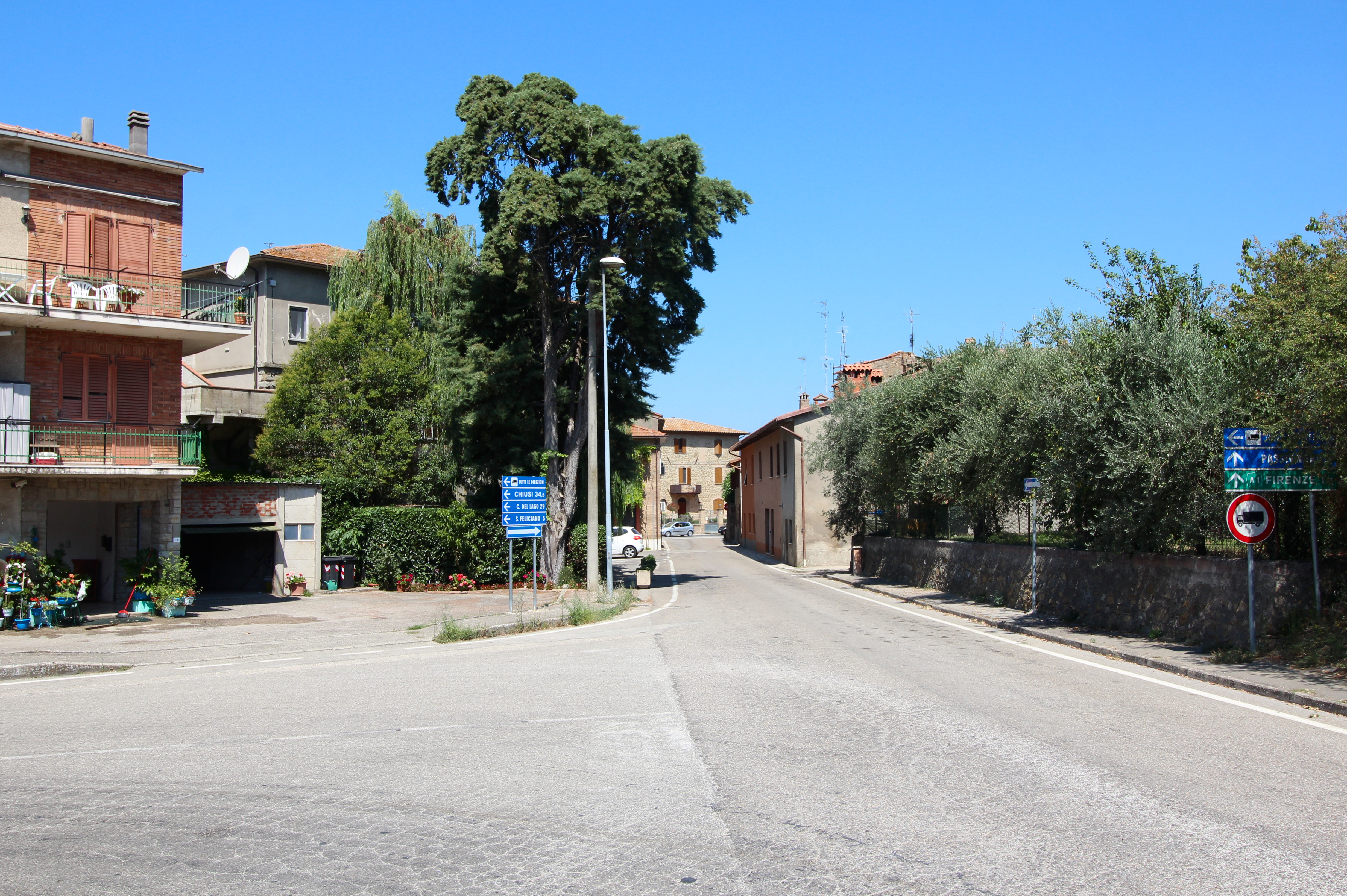 Torricella, hamlet of Magione, Province of Perugia, Umbria, Italy